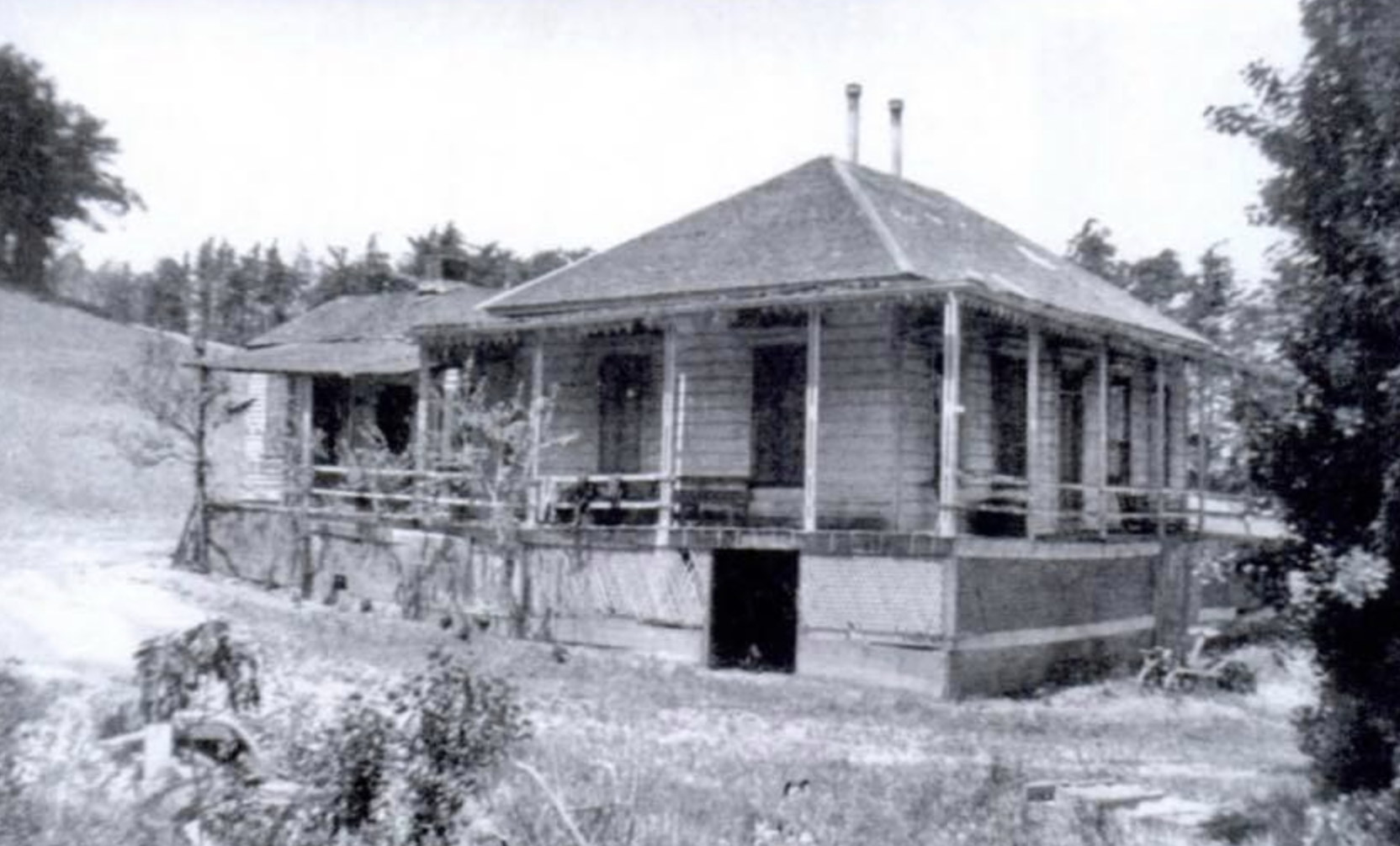 Home built by José de la Cruz Sánchez (1799–1878) for his family in present-day Millbrae, California. Located on Ludeman Lane near today’s Green Hills Country Club and the Millbrae Pancake House, the house was occupied by the family for two generations. When this photograph was taken in the 1920’s, the house had been abandoned.